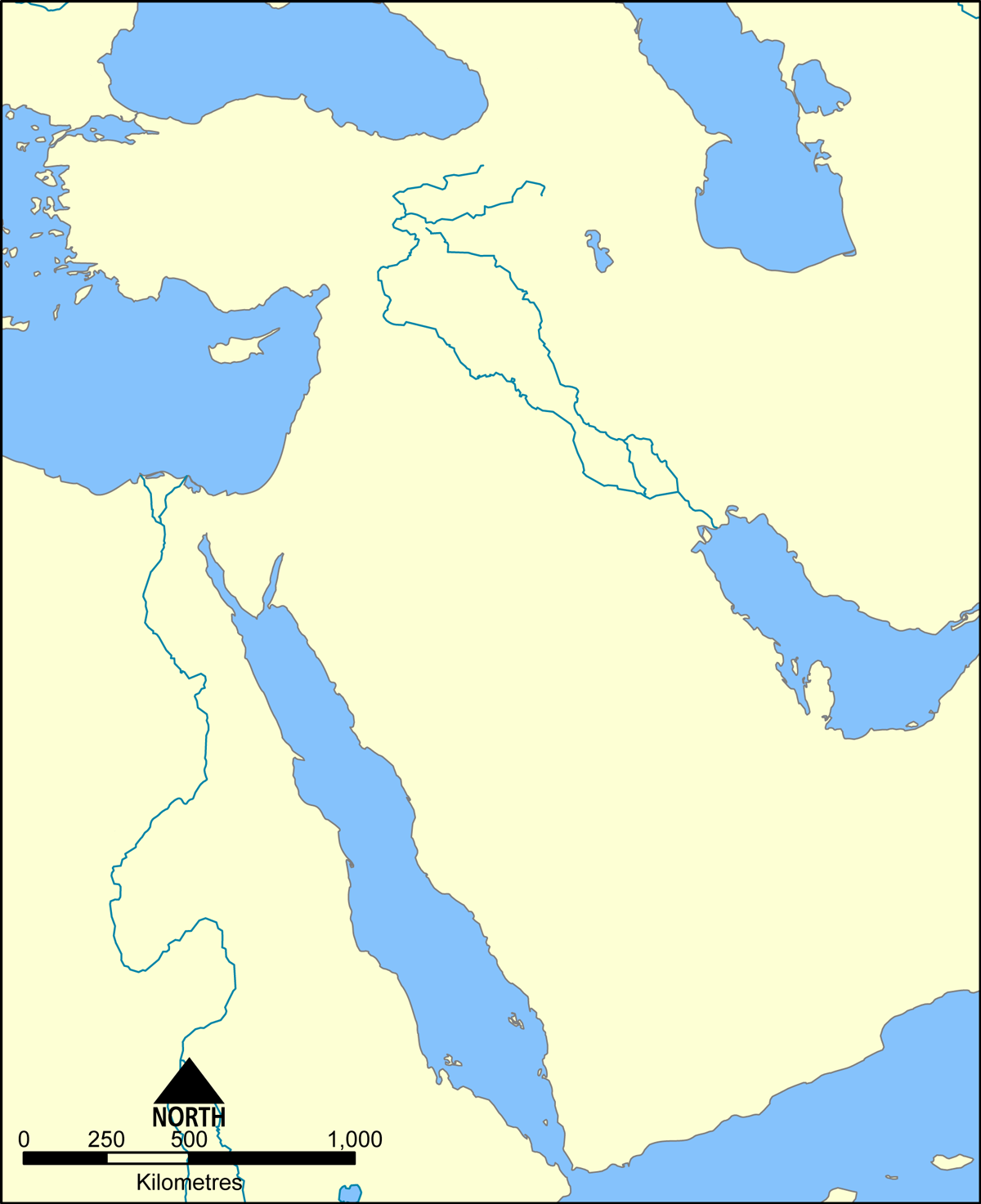 This is a blank version of the base map I used when drawing Image:Fertile Crescent map.png.